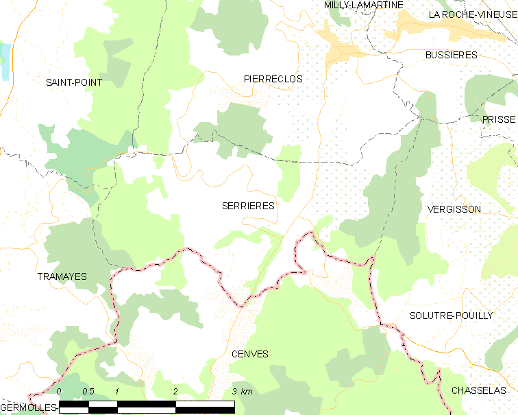 Map of French municipality